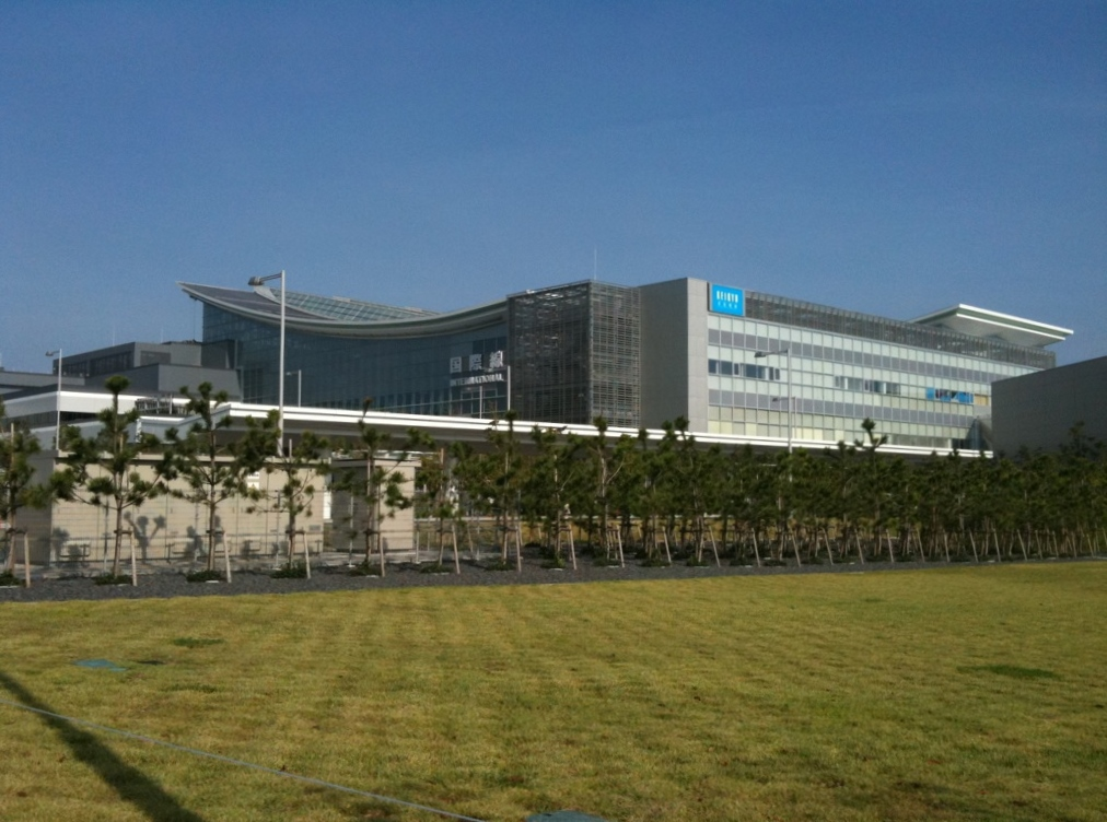 Tokyo International Airport New International Terminal and Station